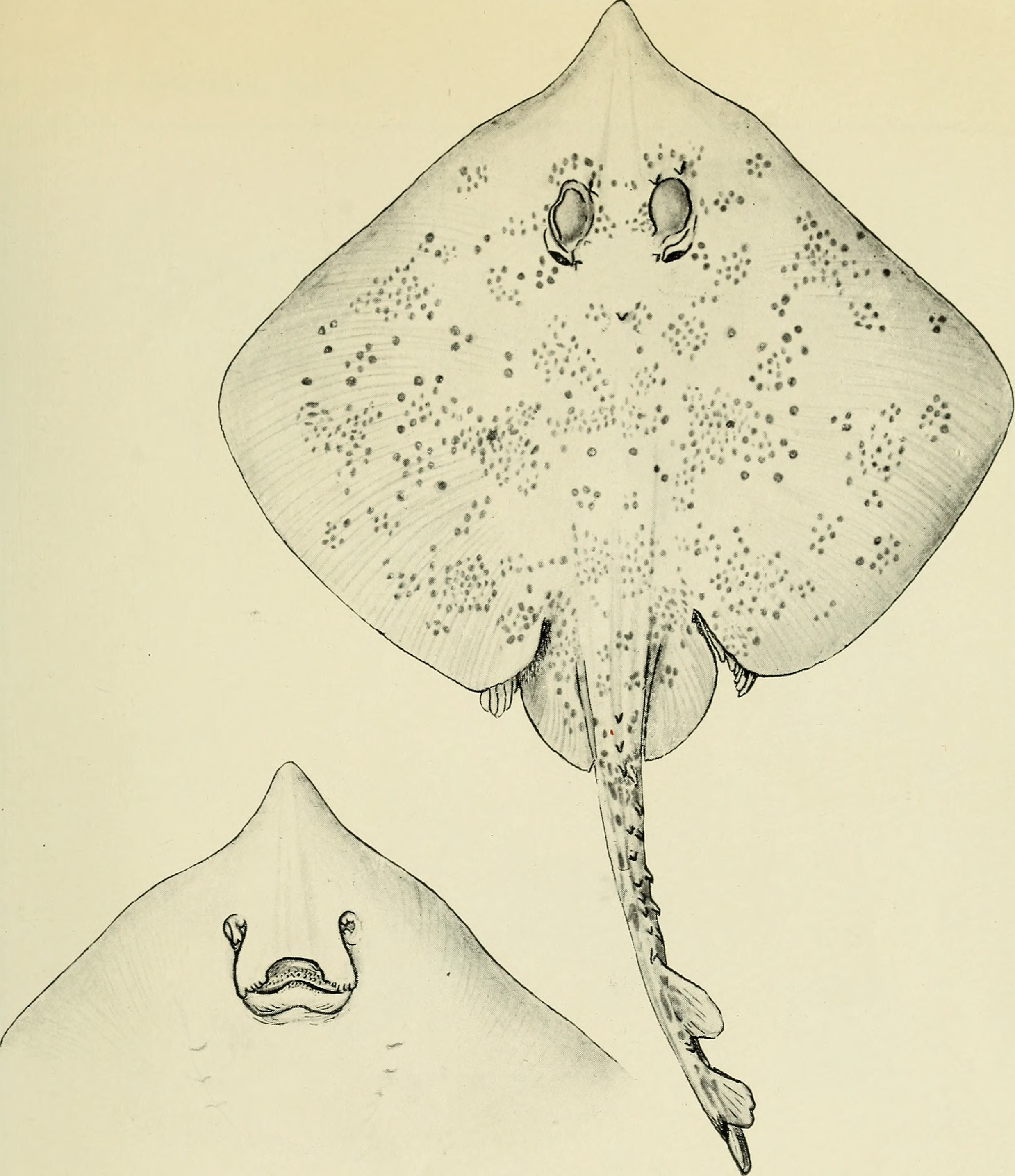 Dipturus polyommata syn. Pavoraja polyommata Title: The Australian zoologist Year: 1914 (1910s) Authors: Royal Zoological Society of New South Wales; Royal Zoological Society of New South Wales. Proceedings Subjects: Zoology; Zoology; Zoology Publisher: (Sydney, Royal Zoological Society of New South Wales) Text Appearing Before Image: The Australian Zoologist, Vol. ix. Plate xxii. Text Appearing After Image: Fig. 1. Pavoraja polyommata (Ogilby). Lectotype from off North Reef, Queensland. (Austr. Mus., Regd. No.1.10904.) .... Joyce Allan del.